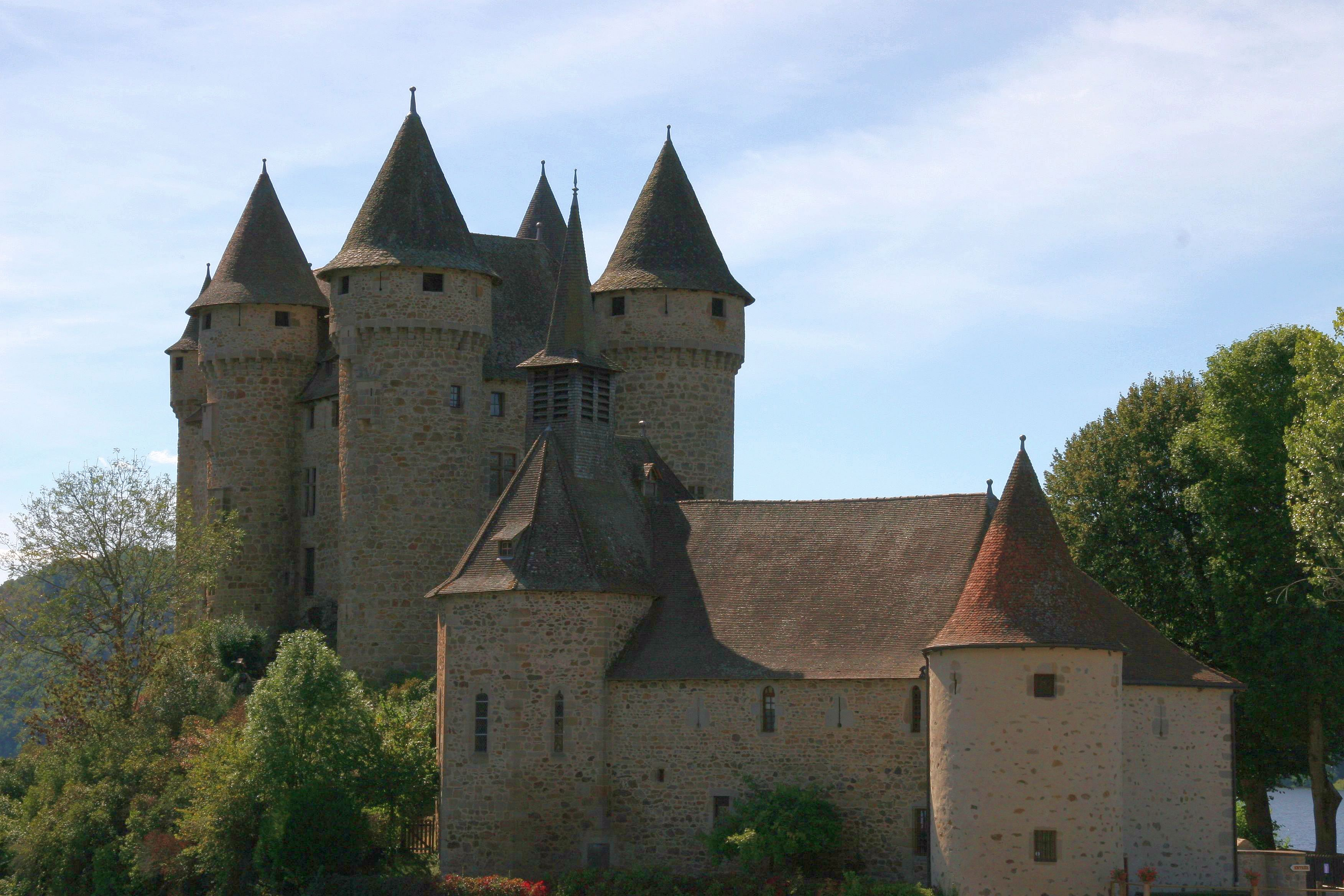 Bort-les-Orgues: Chateau de Val